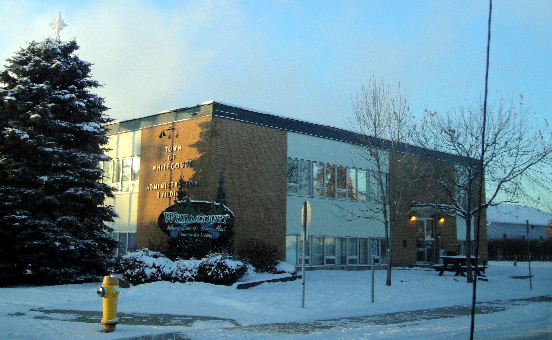 Town hall of Whitecourt, Alberta, Canada.